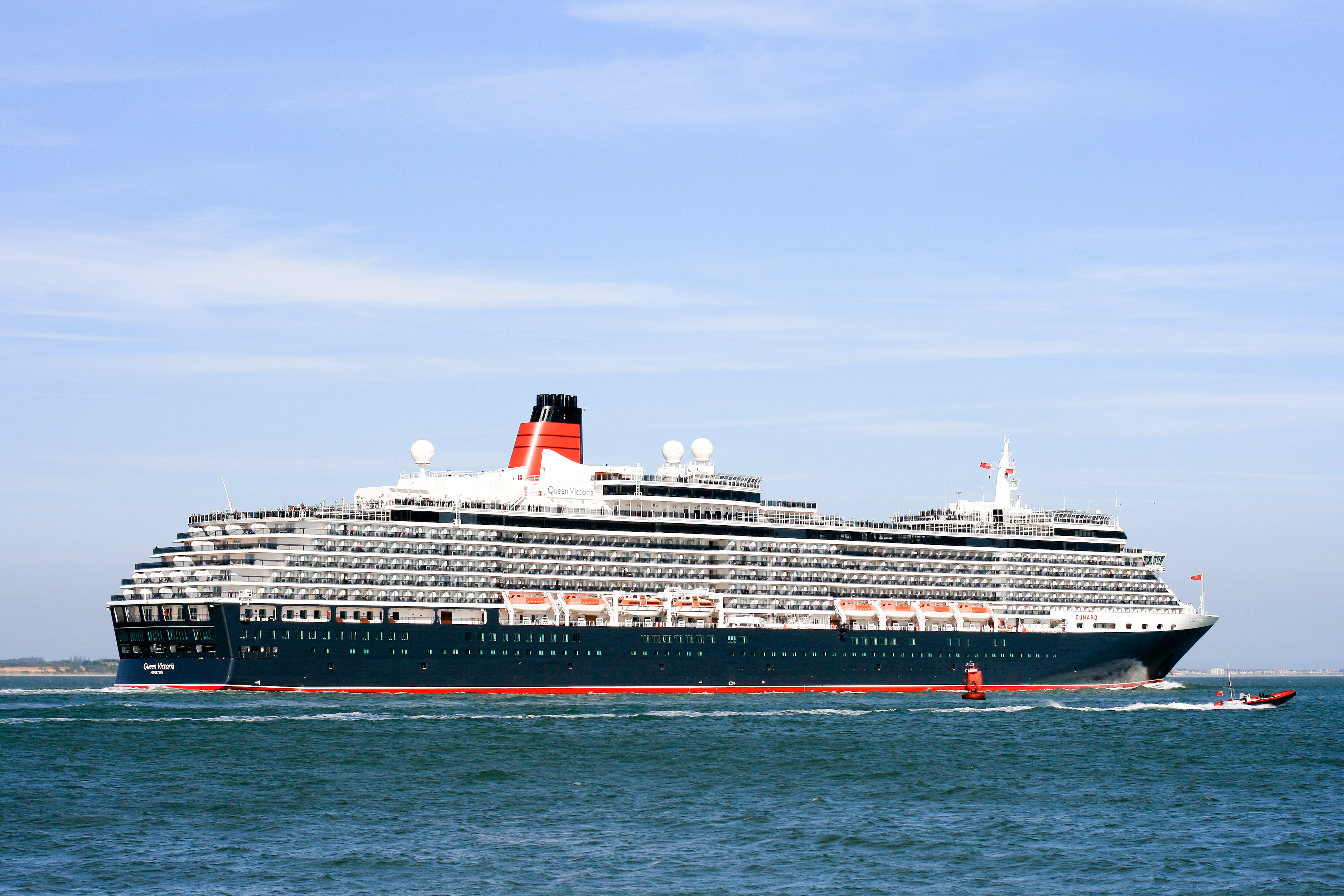 Cunard cruise liner Queen Victoria passes the Black Jack navigational buoy at the exit from Southampton Water into The Solent outward bound on 30 June 2-13 from Southampton to Stavanger, Norway and the Faroe Islands. In command is Cunard's first female captain, Faroese born Inger Klein Olsen. Wikipedia editors are reminded that the copyright remains with the photographer, and that the terms of the Creative Commons (CC), Attribution (BY), Share Alike (SA) CC-BY-SA-3.0 that allow editors to reuse this image apply to Wikipedia editors also, as they do to other re-users of this image. Breaches of the licence terms are not only unlawful, but are also antisocial, in that breaches discourage photographers from making their images freely available to everyone without payment. Wikipedia re-users are also reminded of the license terms that derivatives of this image should not imply that the adaptation is endorsed or approved by the author or copyright holder. Neither should derivatives be presented as the creation of the author or copyright holder, while clearly stating that the adaptation is a derivative of the original. Attribution online should be in this format Brian Burnell. On the printed page, a simpler form is acceptable - example: "Image: Brian Burnell".